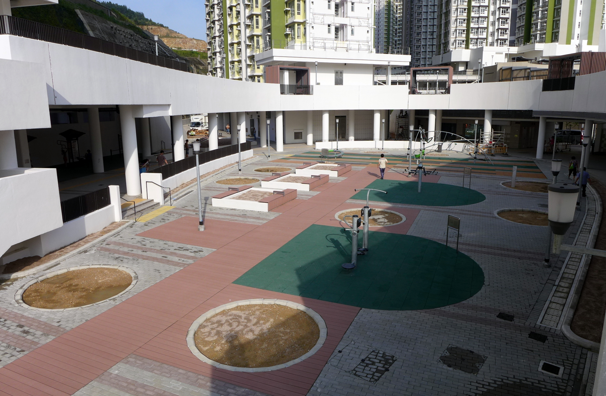 On Tat Estate Entry Plaza